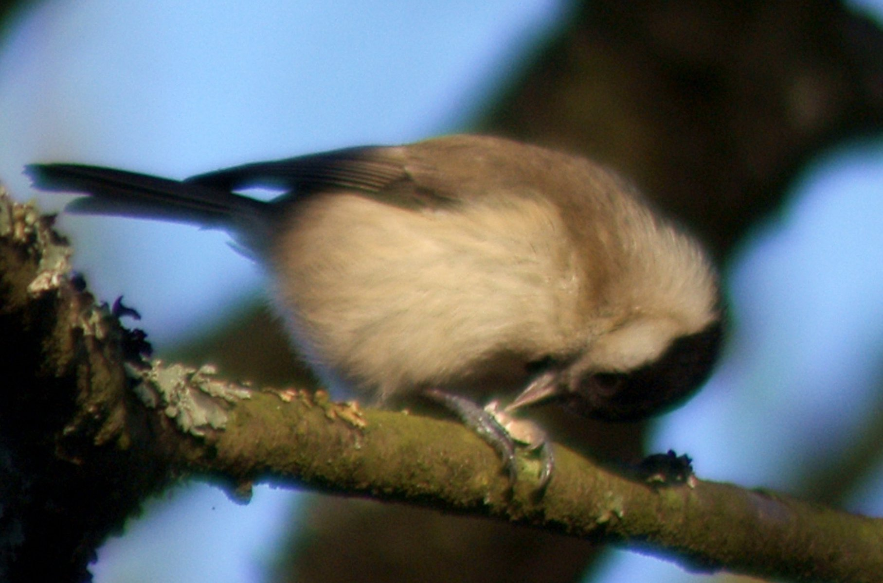 Marsh Tit, Poecile palustris hammer holding